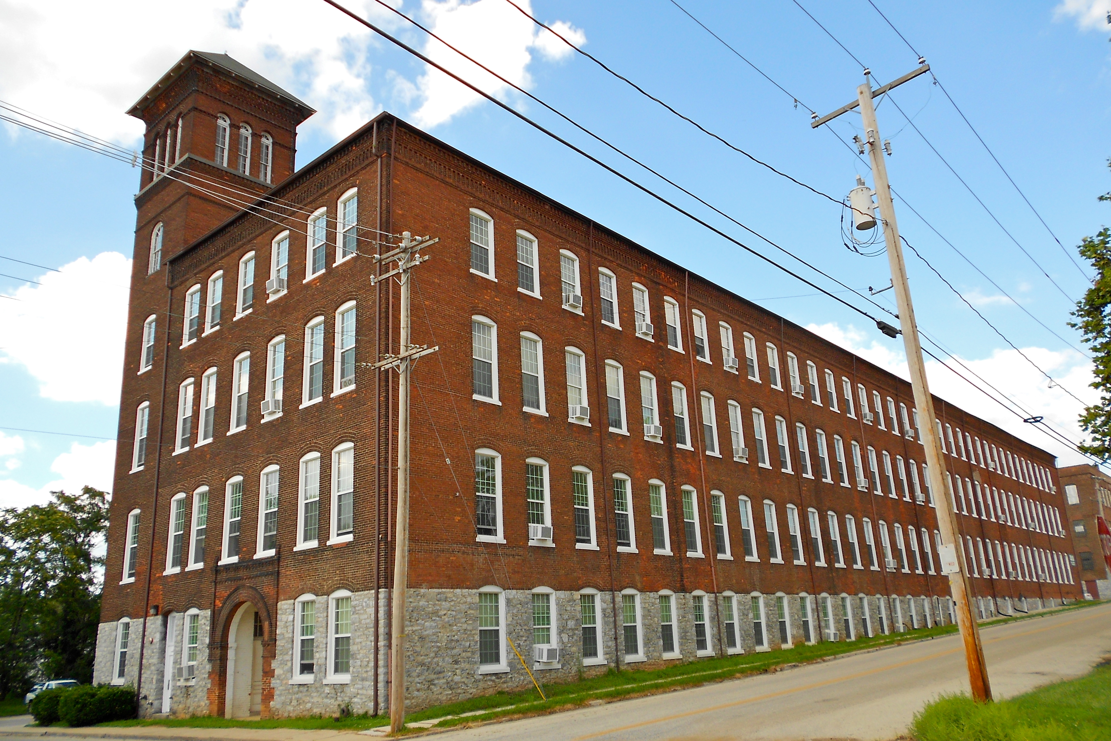 Diamond Silk Mill , listed on the NRHP on July 24, 1992. At the intersection of Ridge Avenue and Hay Street in East York, Springettsbury Township, York County, Pennsylvania.